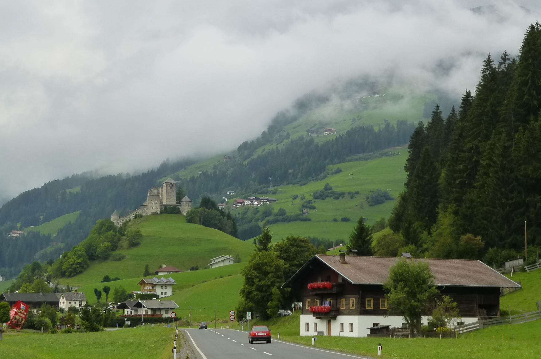 View from road 100 towards Burg Heinfels, Heinfels, Eastern Tirol.